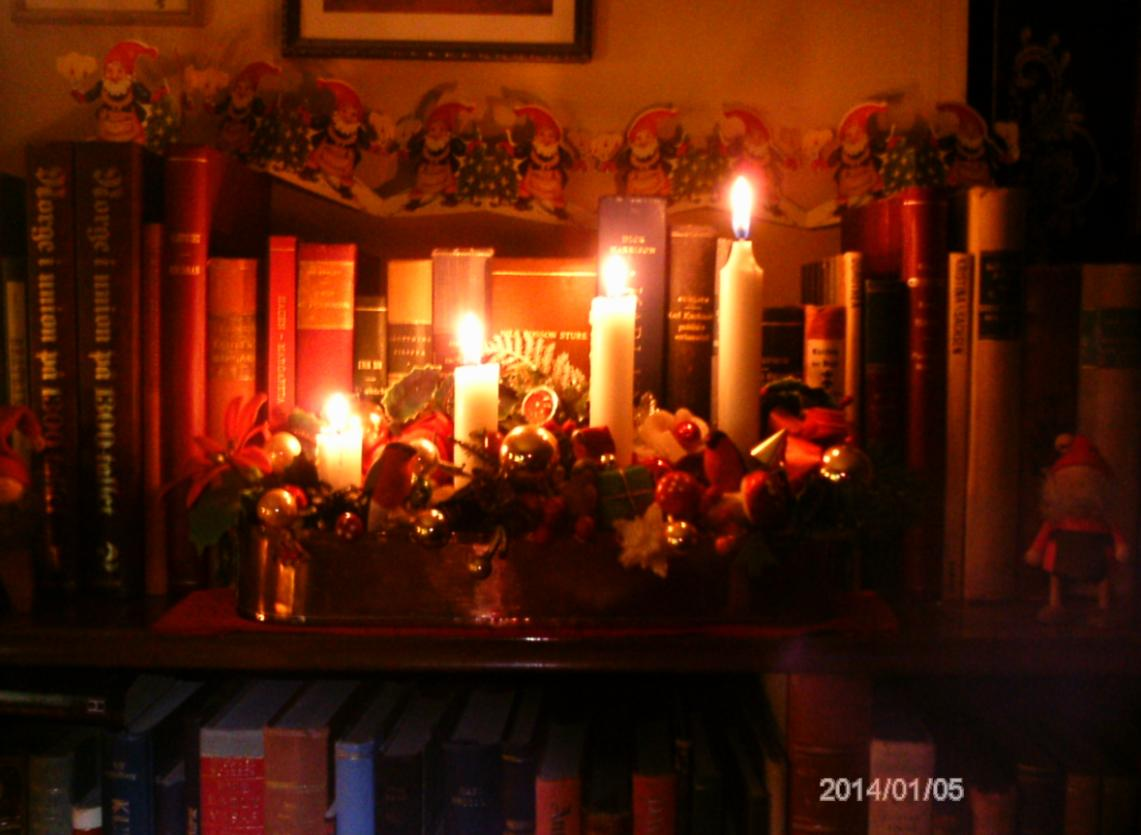 Christmas decor of 2014; Swedish Advent candle holderPlace: Lars Jacob residence, Stockholm, Sweden